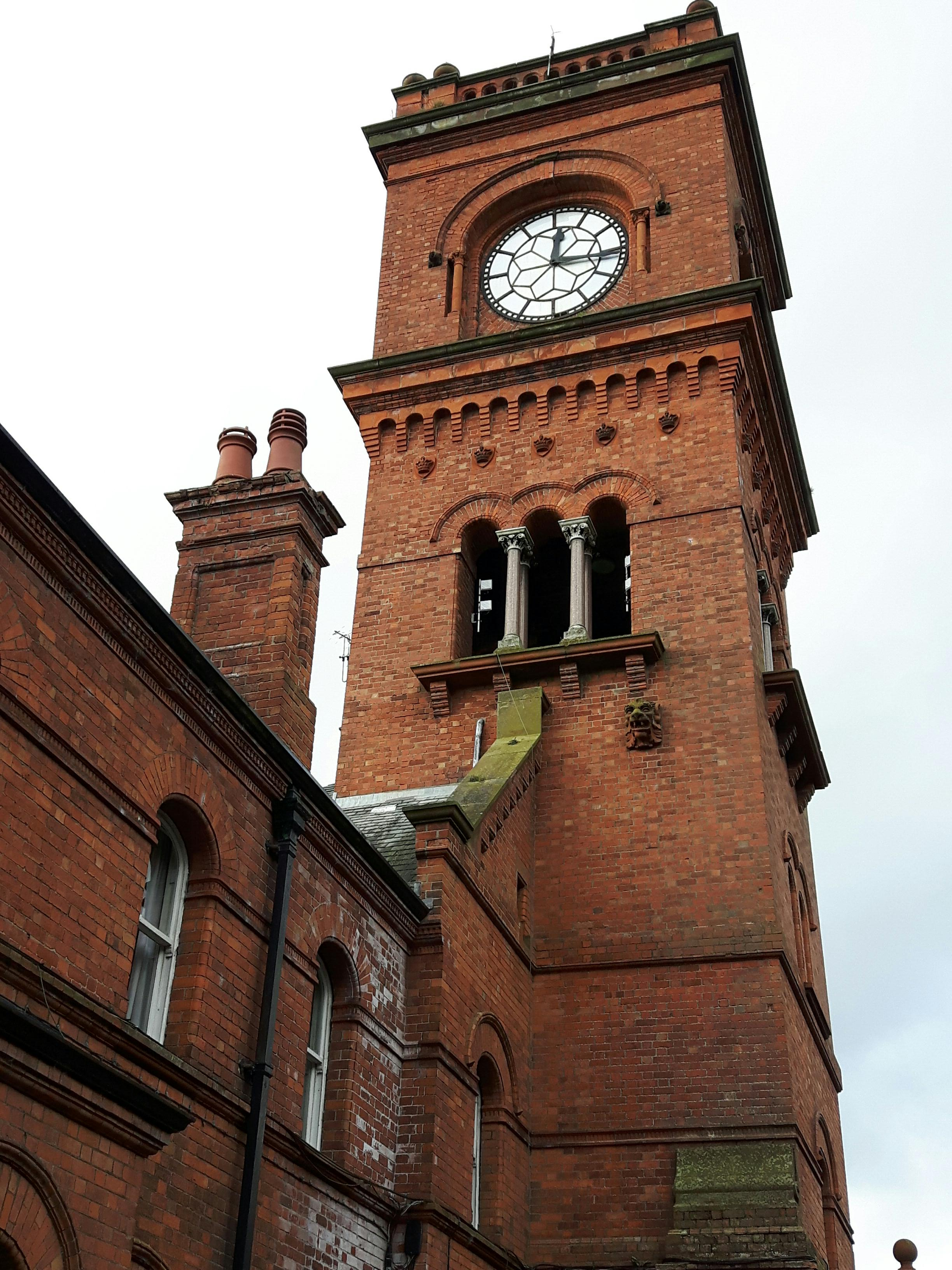 Close up of the clock tower at Holywell Hospital, Antrim, Northern Ireland.